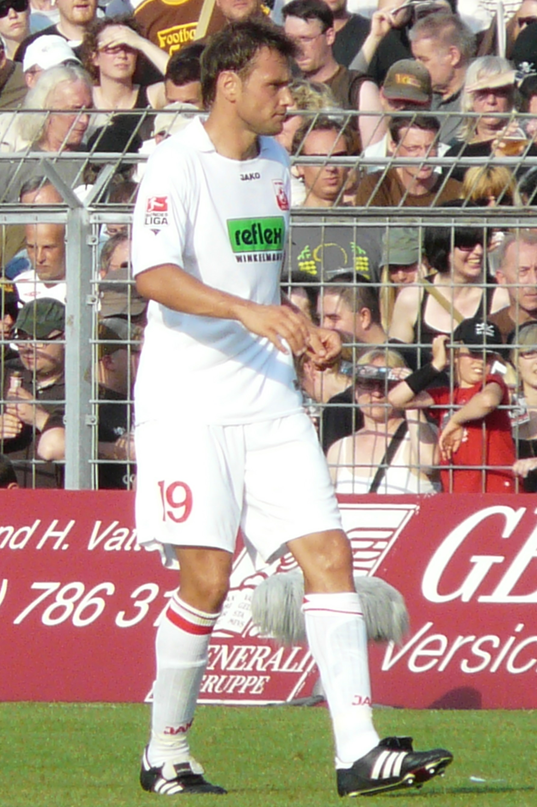 Nils Döring as Player from RW Ahlen